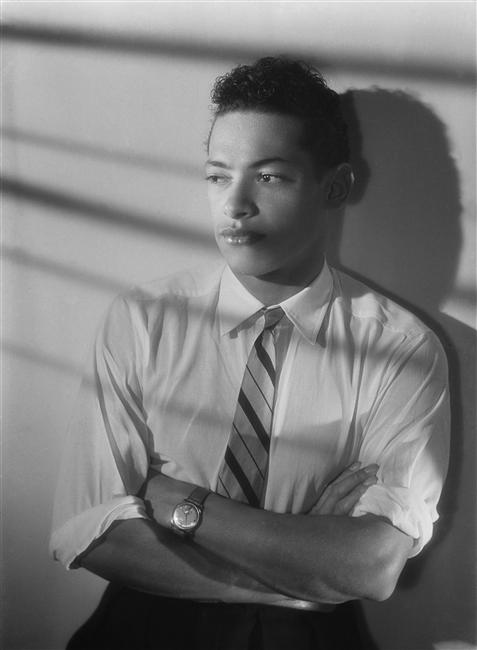 Studio photo